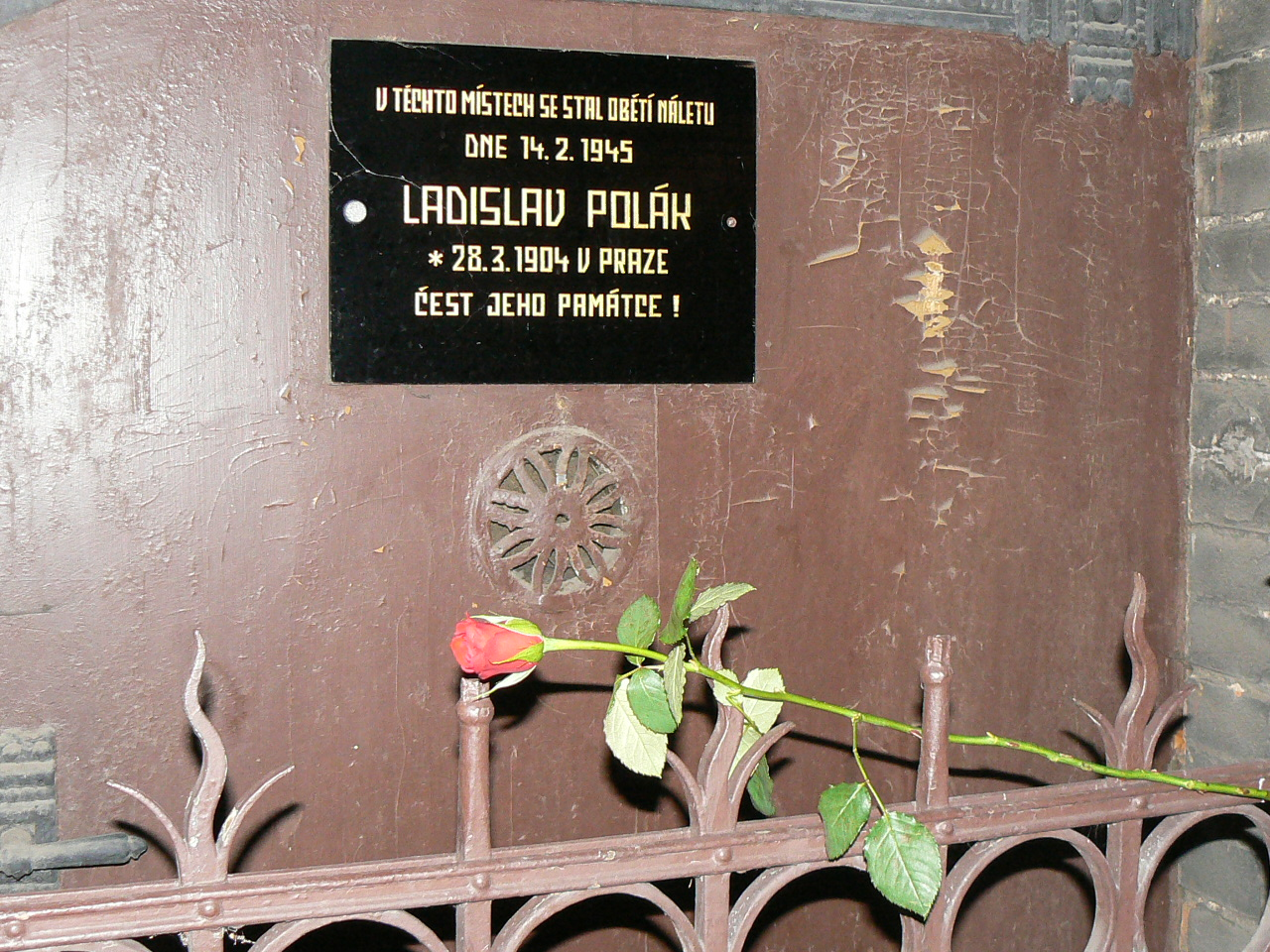 Memorial plaque on Apolinářská St. in Prague, Czech Republic. Ladislav Polák was killed by an Allied air raid on 14th February 1945.